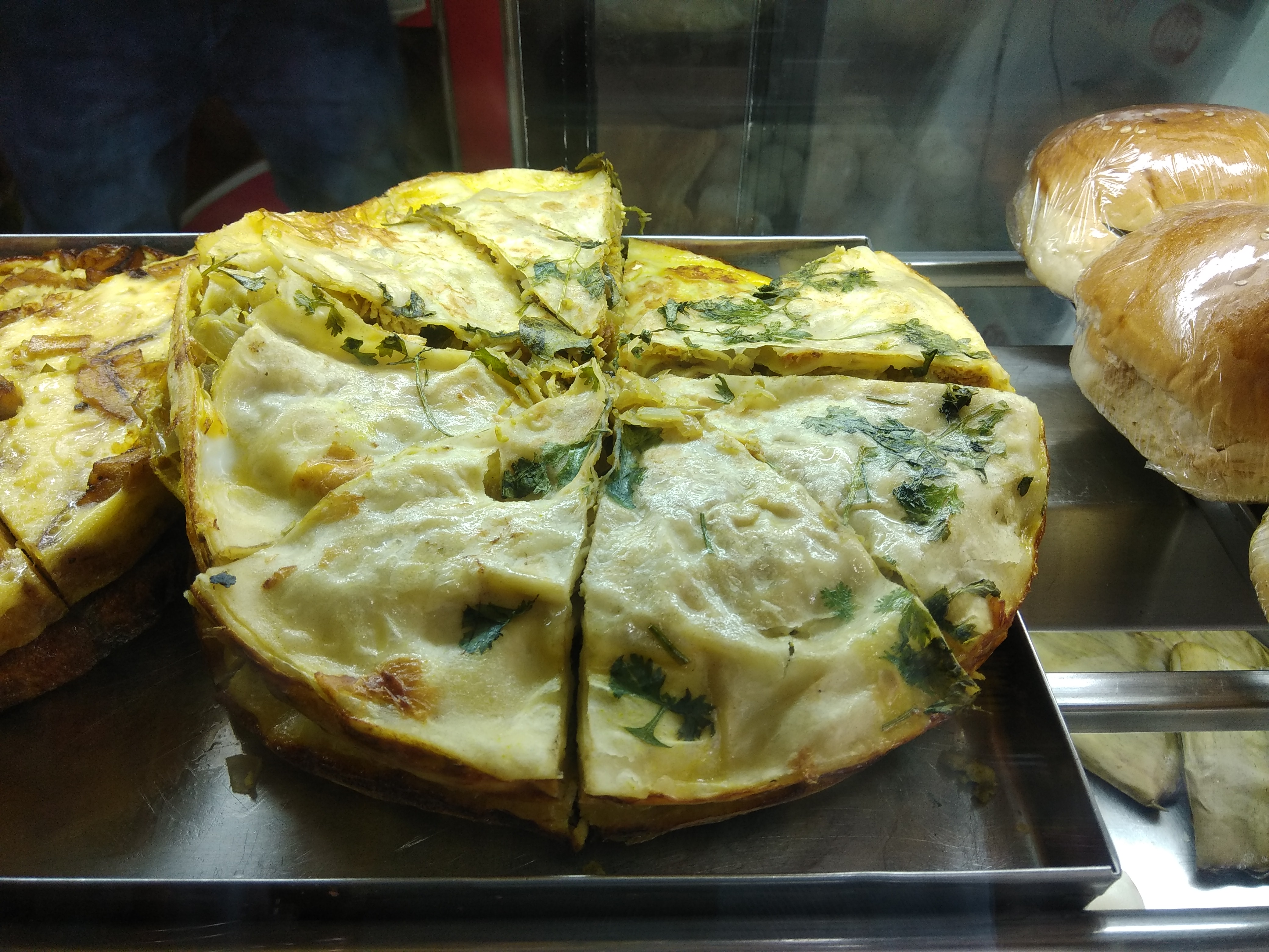 chattippathiri snack of north malabar kerala